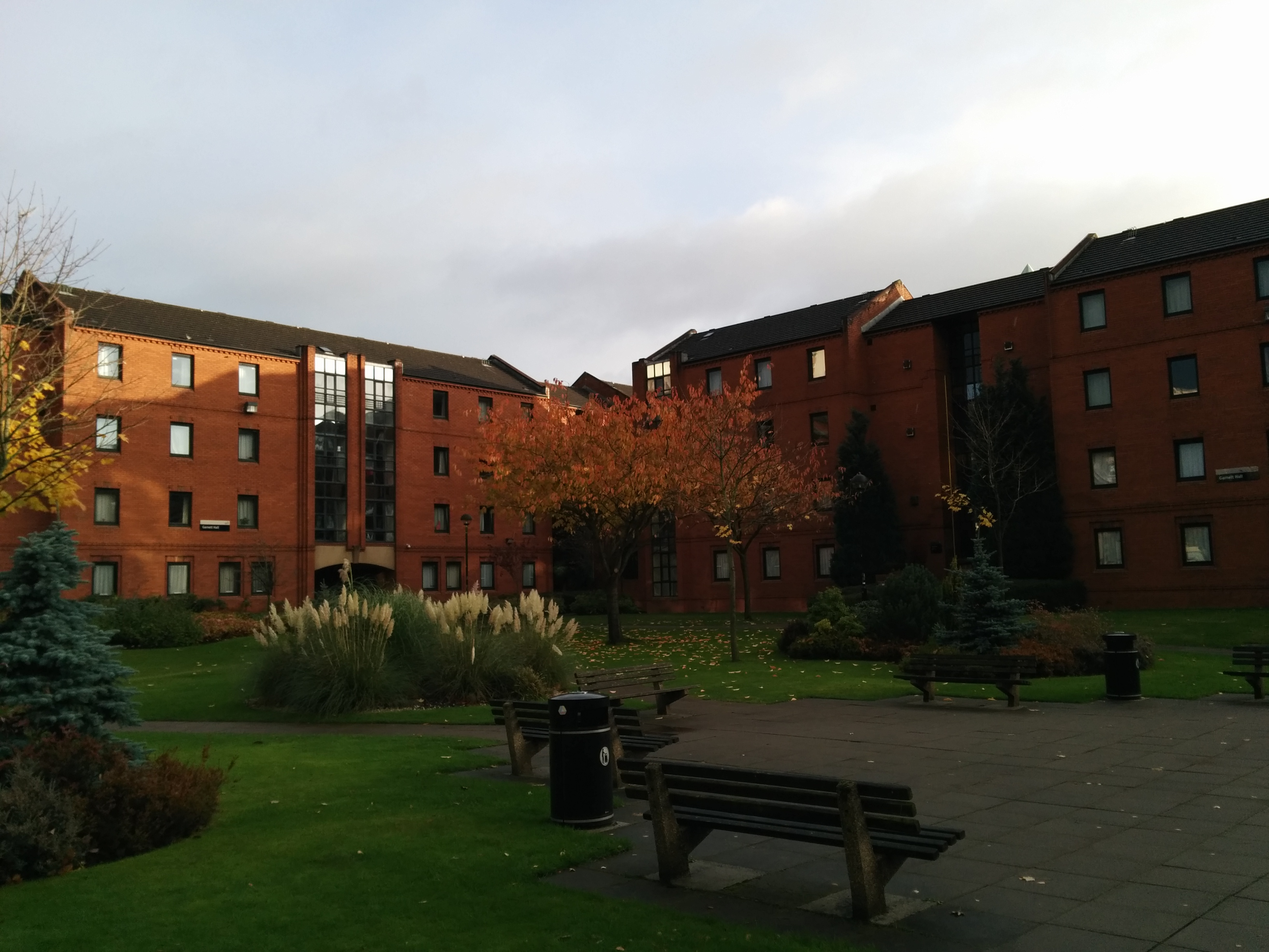 Picture of Garnett Hall (Strathclyde)